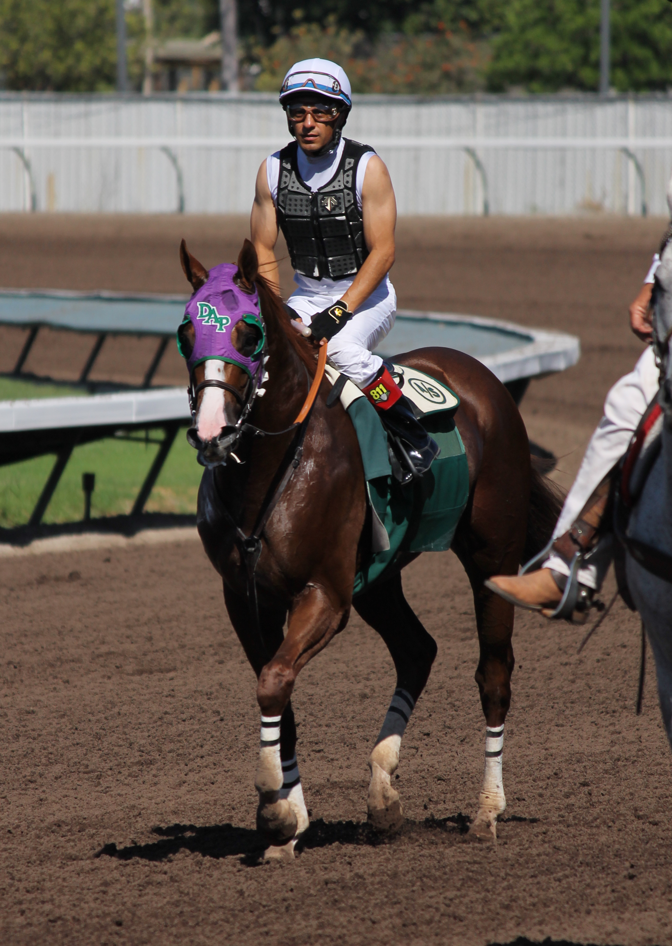 IMG_6824_edited-1 Los Alamitos Racetrack on September 6, 2014, California Chrome was ridden by Victor Espinoza in a public workout between races.